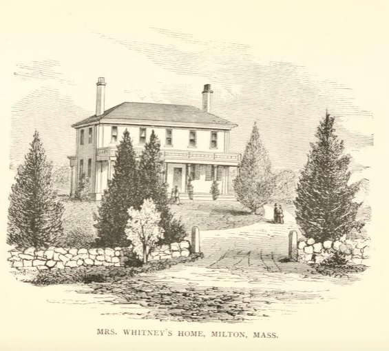 Sketch of the home of American poet/author Adeline Dutton Train Whitney (1824-1906) in Milton, Massachusetts. From Poets' Homes: Pen and Pencil Sketches of American Poets and Their Homes, edited by Richard Henry Stoddard. Boston: D. Lothrop and Company, 1877: p. 43.